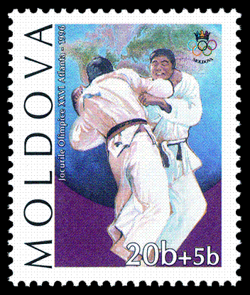 Stamp of Moldova